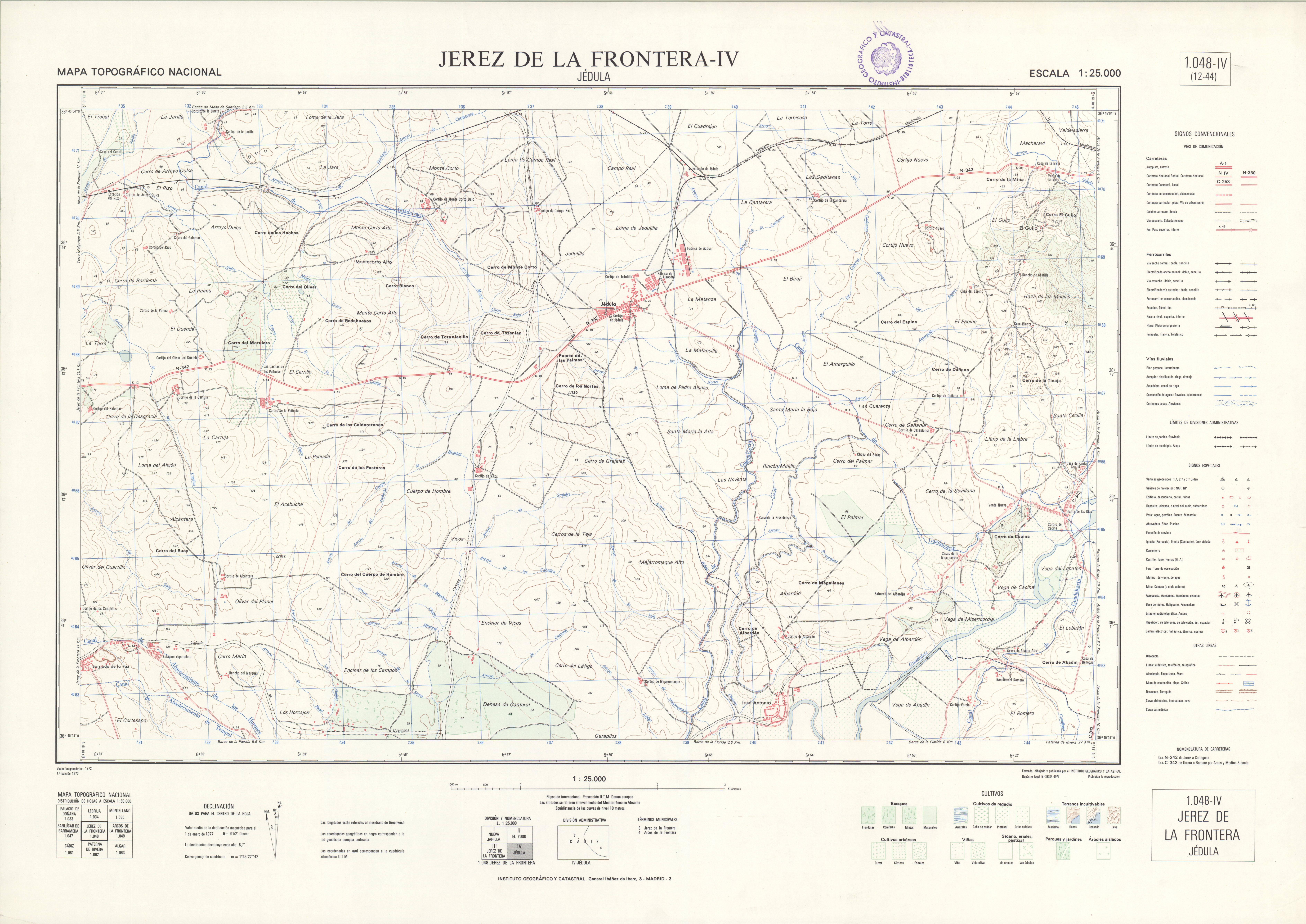 Fragment 1048c4 of the National Topographic Map of Spain in 1977 at a scale of 1:25000 printed and scanned with a resolution of 250 ppi. It shows Jerez de la Frontera-IV (Jedula).